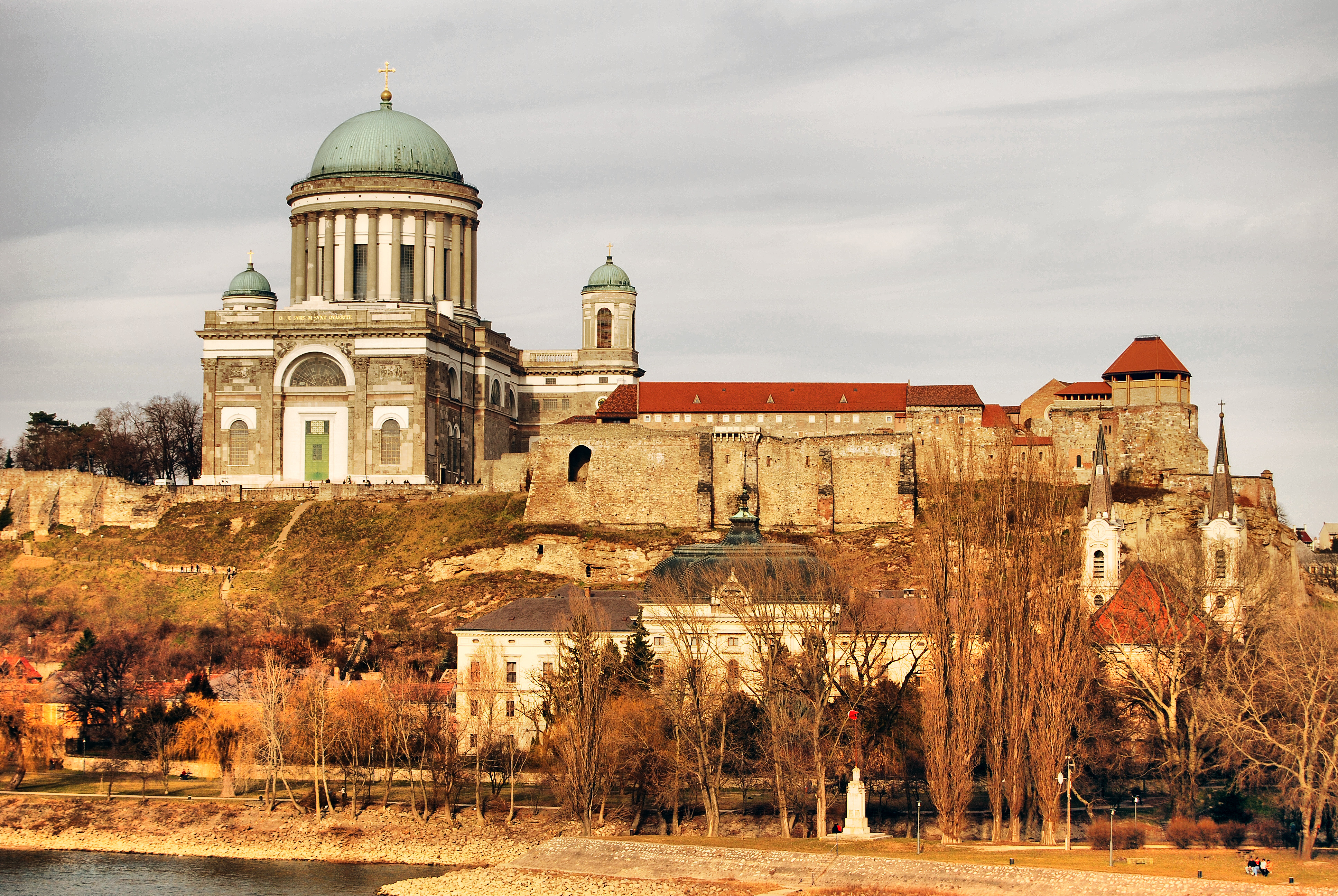 The Cathedral of Esztergom, Hungary.